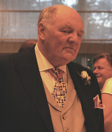 Cropped image of Michael Brougham, 5th Baron Brougham and Vaux at his daughter's wedding.